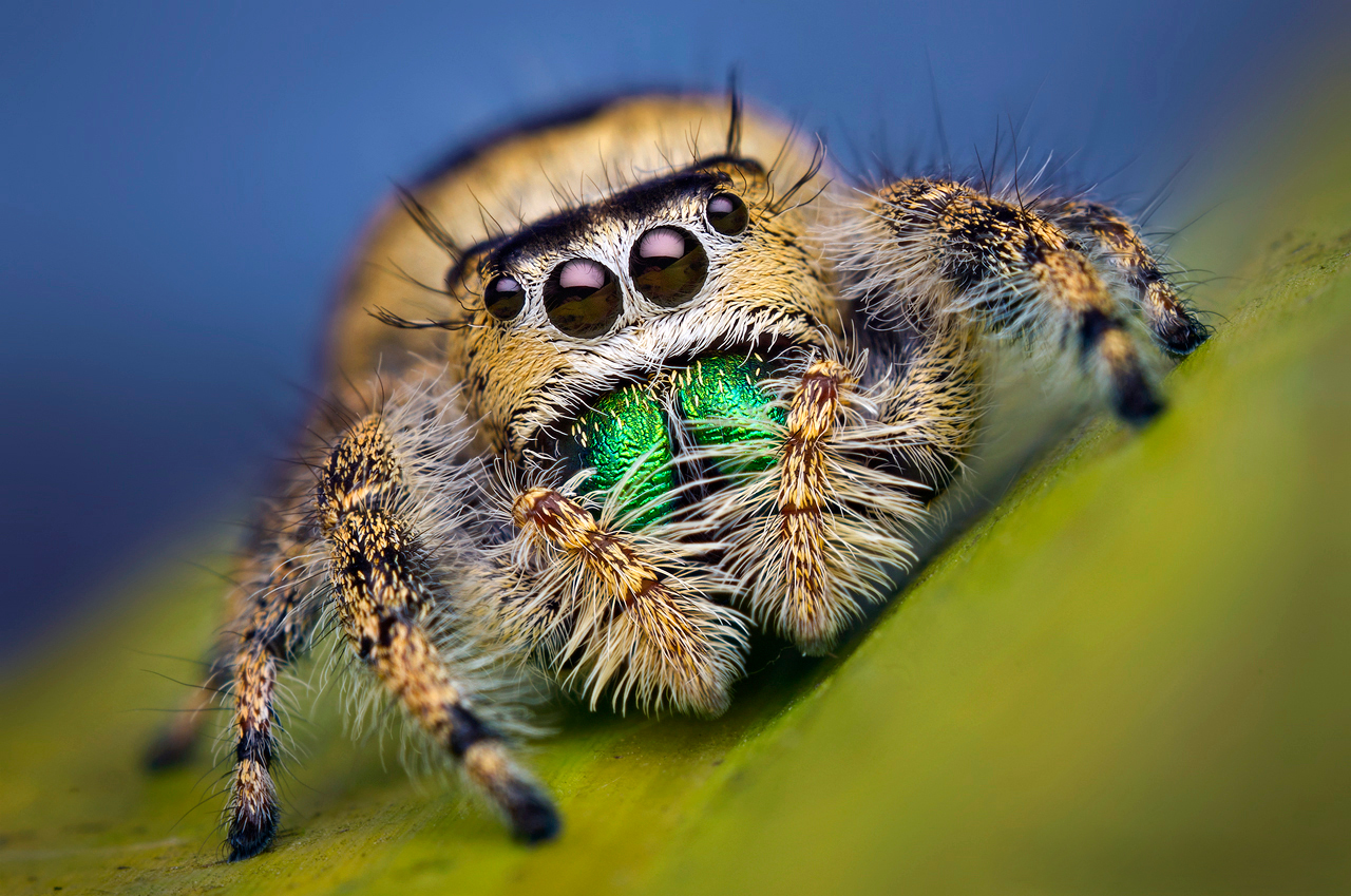 Yet another amazing Phidippus species I had been dying to find while down in Florida while teaching the last Bugshot class back in August. Just look at those chelicerae! Phidippus workmani is within the P. audax species group - and although the males are relatively close in appearance to P. audax males - the females are just fantastically marked! This awesome female specimen was found by Josh Mayes, an attendee of the workshop.